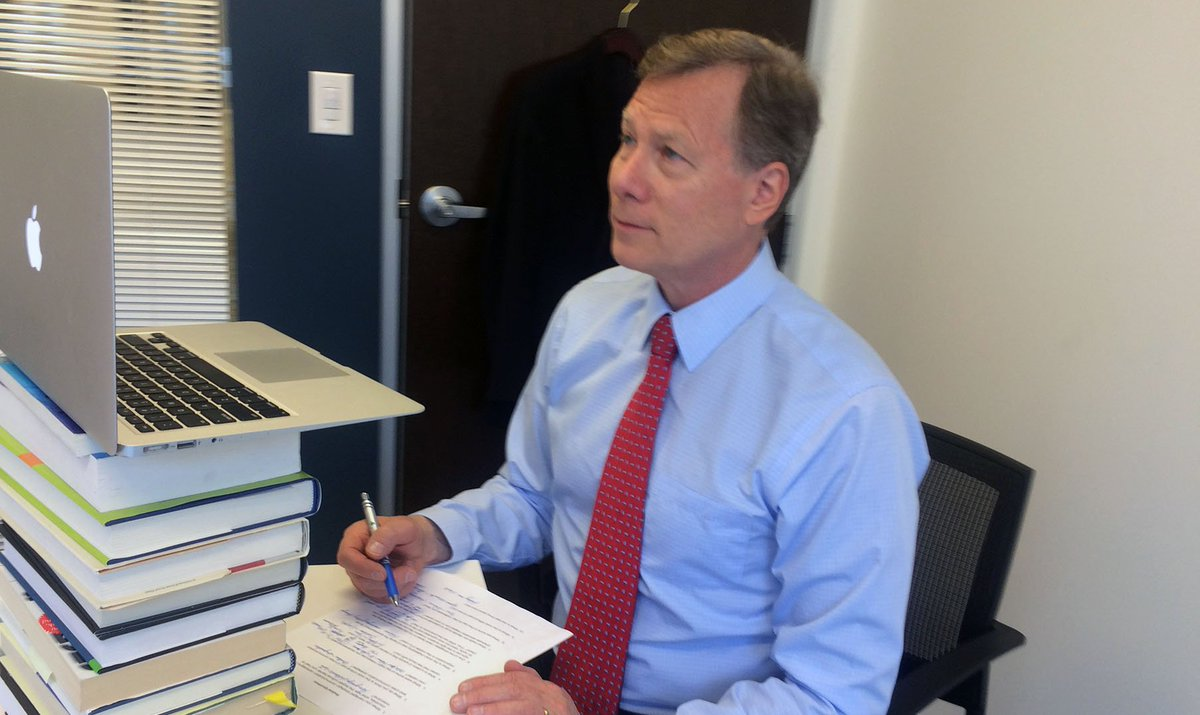 Gene Grabowski addresses students in a video chat.